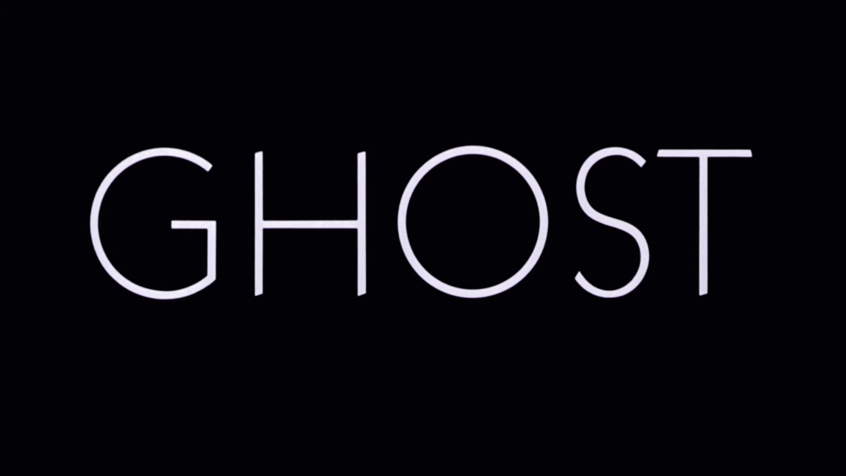 Opening intertitle of the 1990 film Ghost